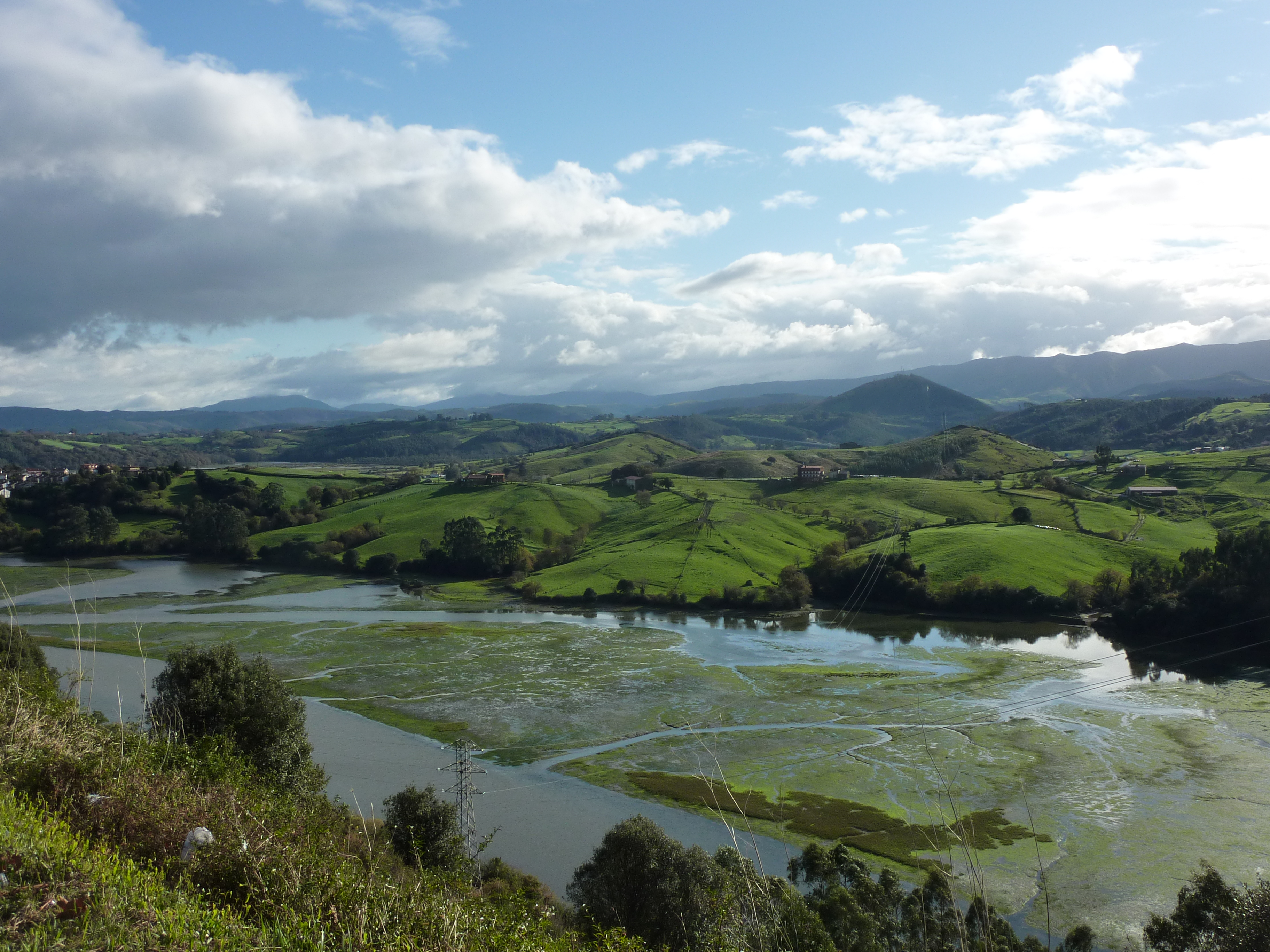 Hills and ria typical of a landscape from La Marina, Cantabria, Spain.